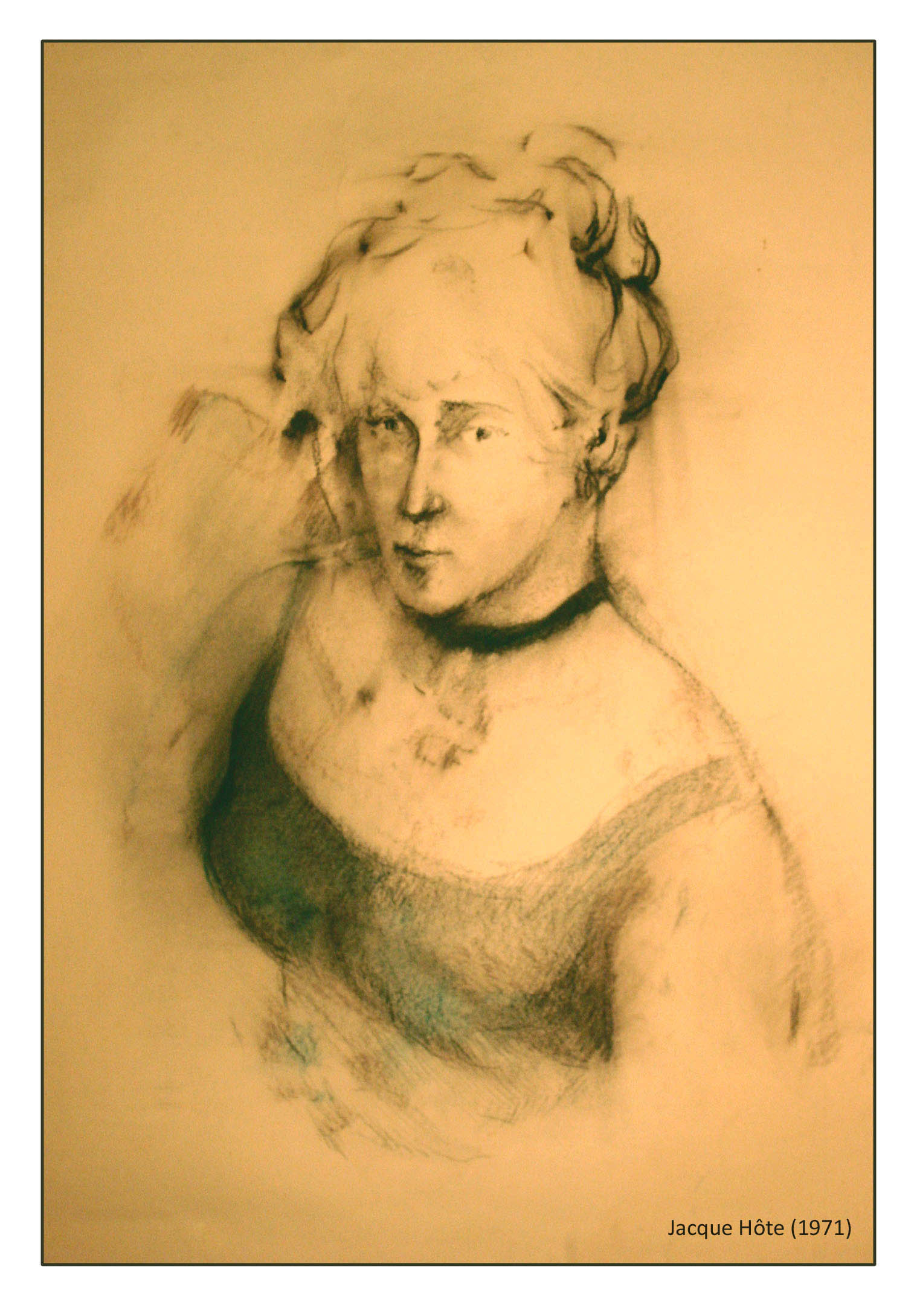 charcoal